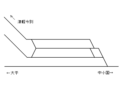 Track map of Shin-Naka-Oguni Signal Base